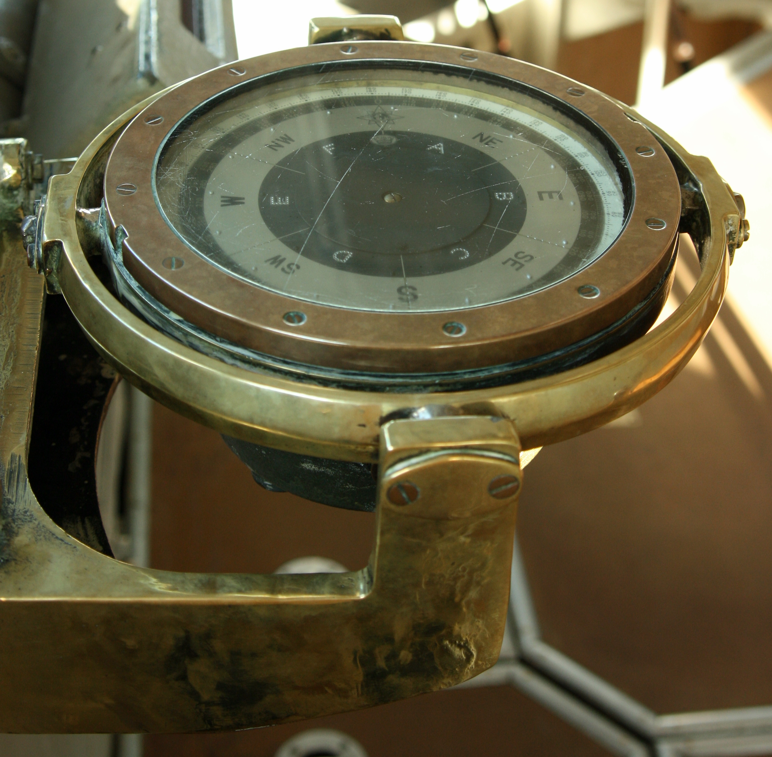 Compass on the Admiral's bridge on HMS Belfast